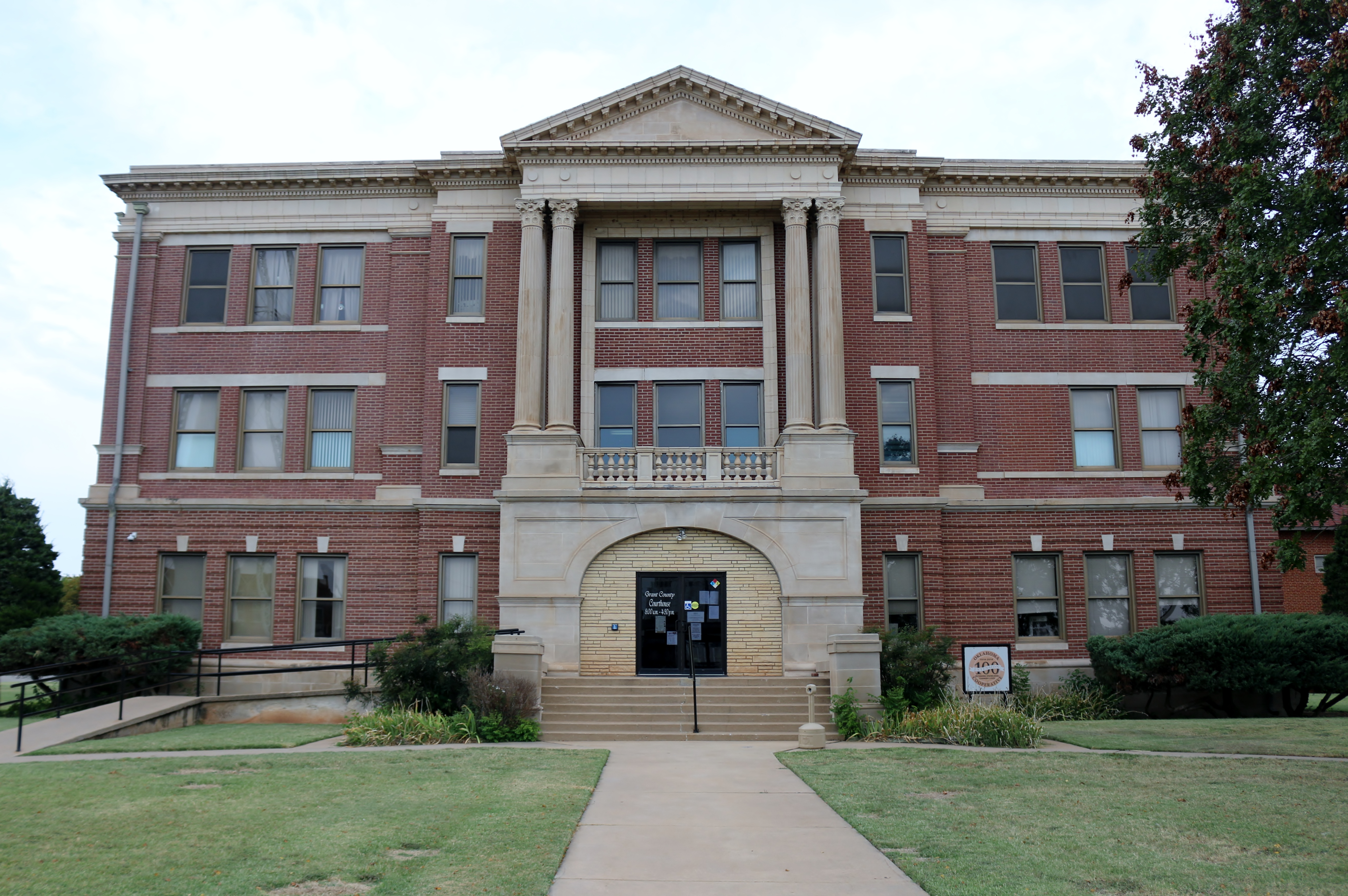 This is a picture of the county courthouse in Grant County, OK. It is located in Medford, OK.